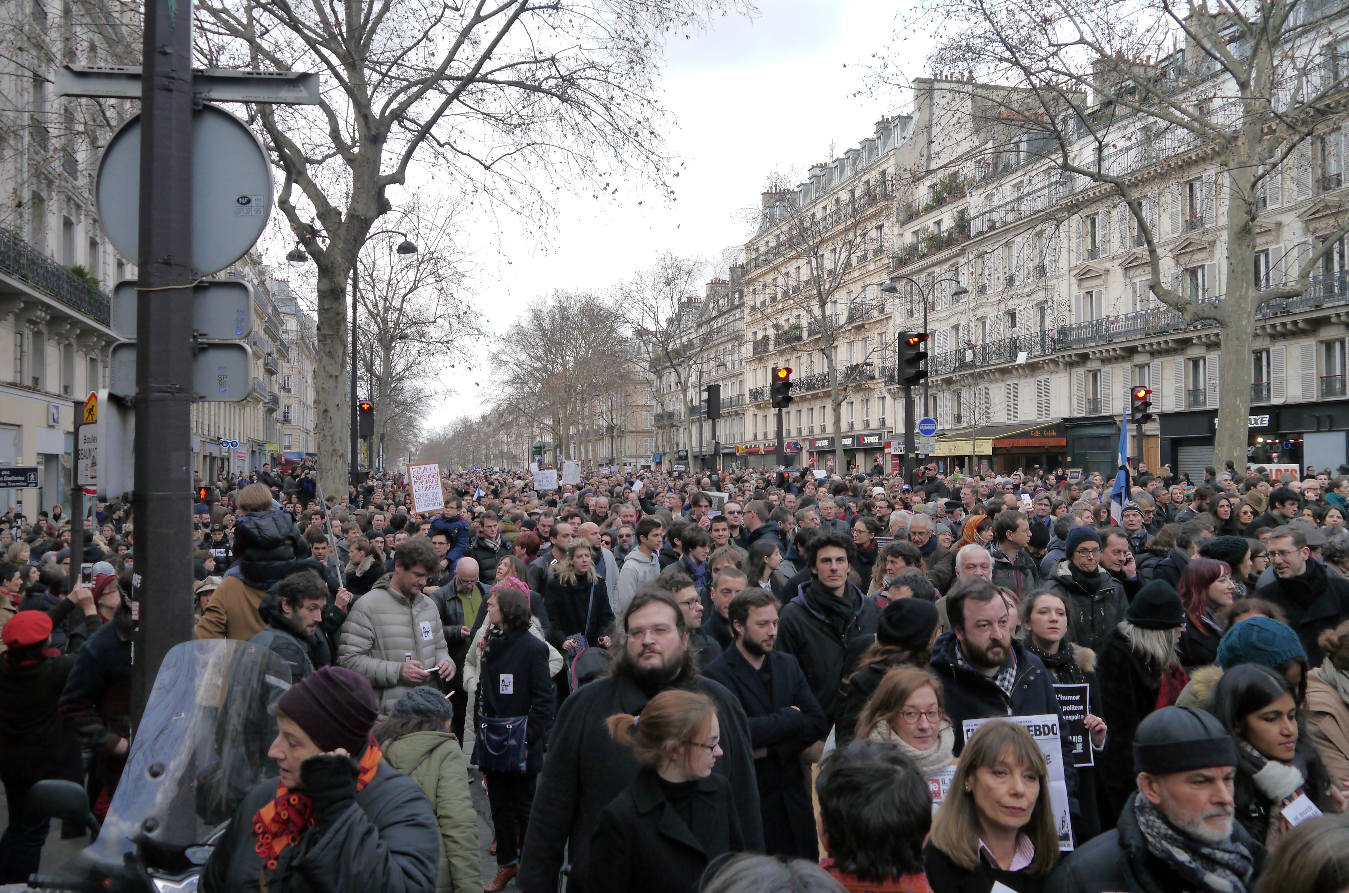 Paris rally in support of the victims of the 2015 Charlie Hebdo shooting, 11 January 2015. Boulevard Beaumarchais.